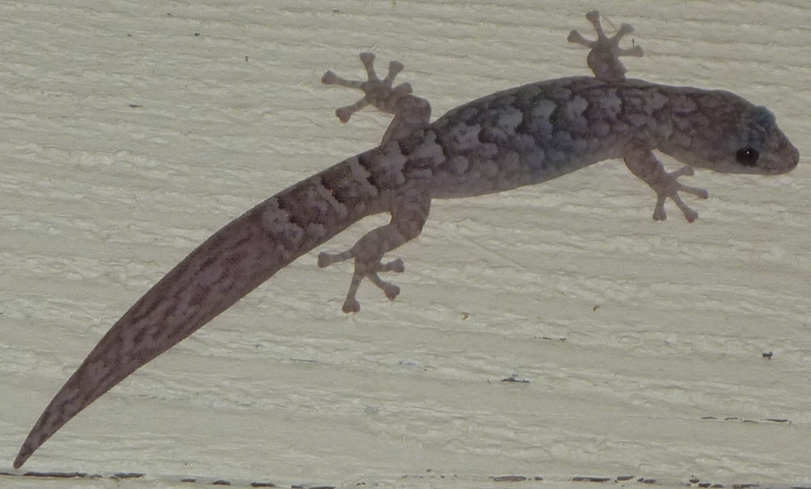 Photo of Marbled Gecko (Christinus marmoratus) in Adelaide, South Australia. The conspicuous change in the tail pattern indicates regeneration after autotomy.